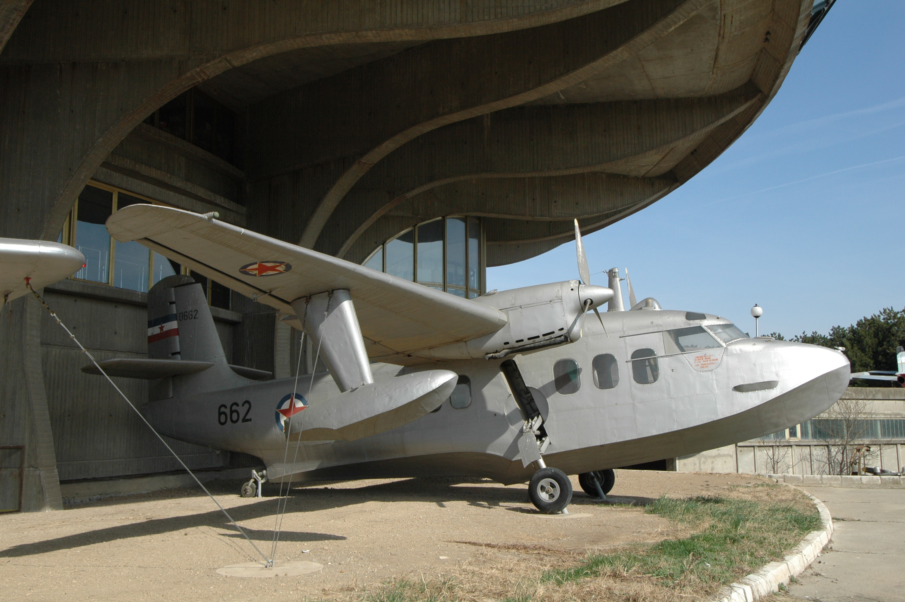 Short SA6 Sealand MkI